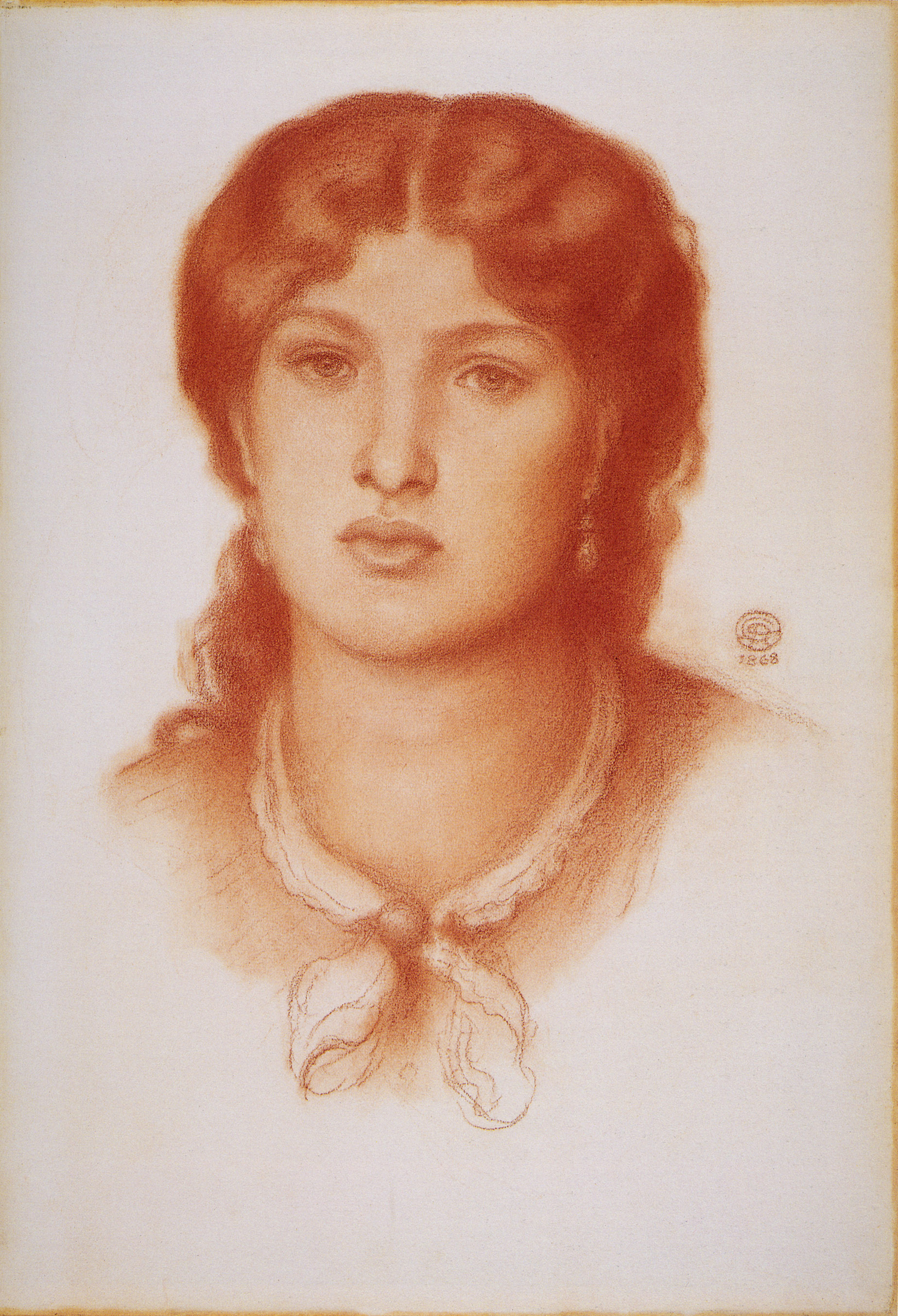 Fanny-cornforth